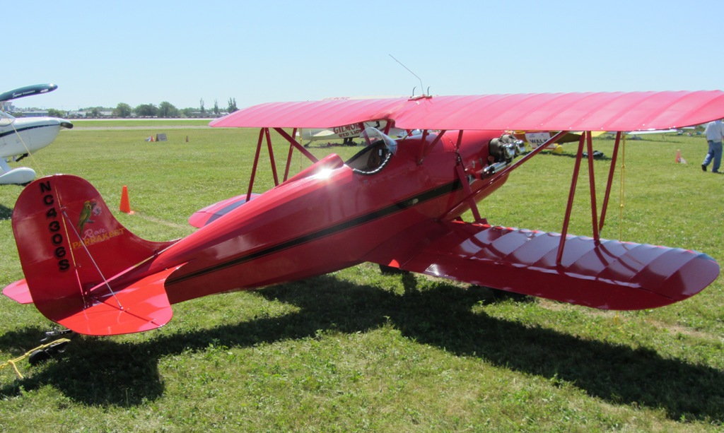 Rose Parakeet